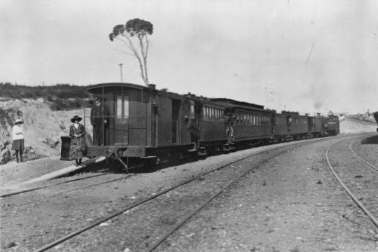 Train and train station at Portland, New Zealand in 1923. Extended information on origin webpage reads: Passenger train at Portland Railway Station / When: Circa 1923 / Format: 1 b&w original negative(s).; Film negative 17.25 x 11.75 cm.; Horizontal image.; Single negative. / Description: Passenger train at Portland Railway Station. The photographer's wife, Laura Godber, is standing in the foreground, at the rear of the train, and the guardsman is standing at the entrance to the guard's van. Photographed by Albert Percy Godber in 1923. This film negative is taken from the print in Godber Album Vol 109, p 190 (PA1-q-102). / Subjects: Godber, Eleanora Georgina, 1872-1947 (Subject) ; Portland Railway Station (Subject) ; Railway stations - New Zealand - Northland Region ; Railway trains - New Zealand - Northland Region ; Railways - Employees ; Railway passenger cars ; Portland ; 1923 / ID: APG-1277-1/2-F